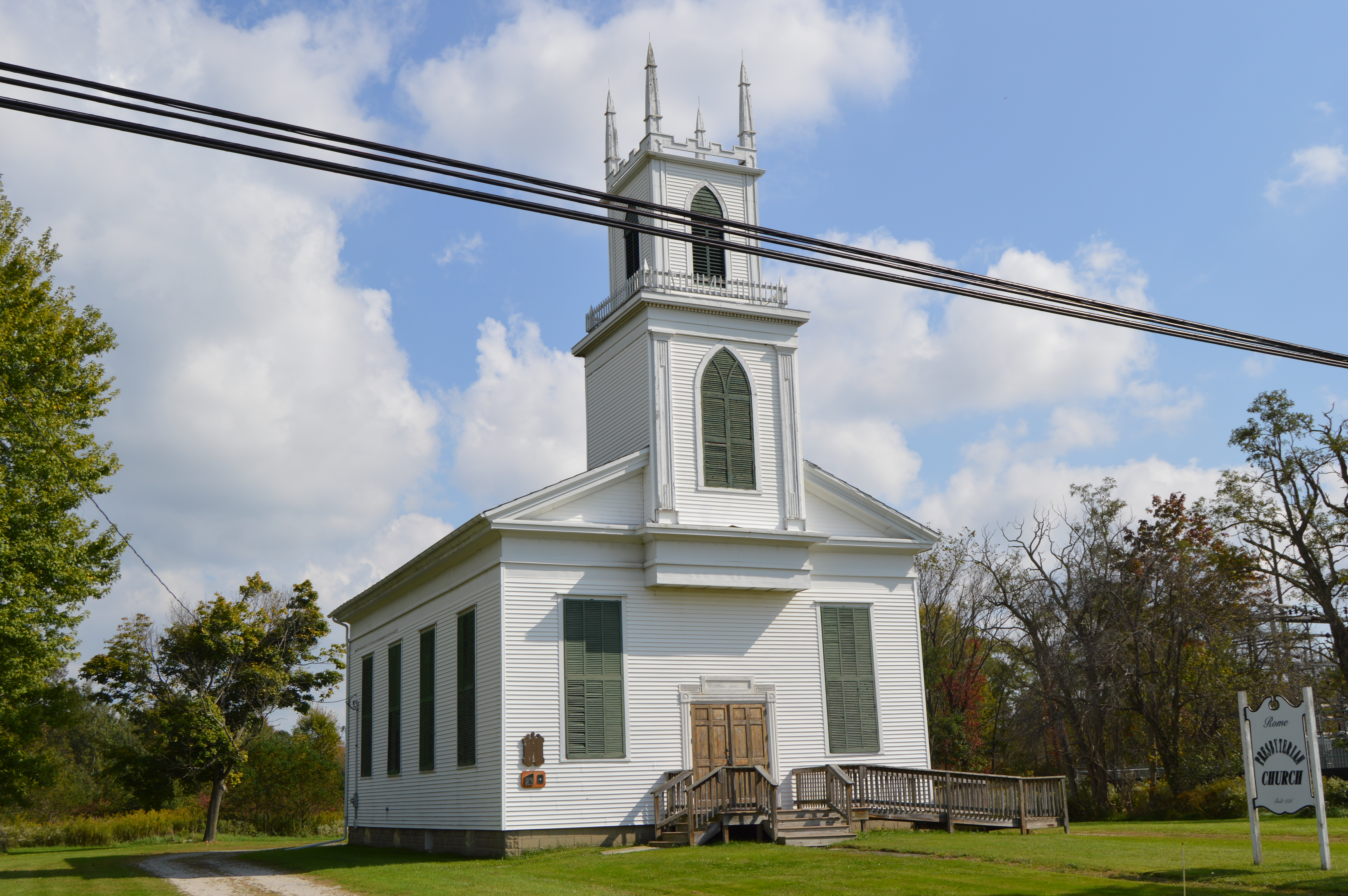 Front and northern side of the Rome Presbyterian Church, located on State Route 45 north of U.S. Route 6 at Rome Center, Ohio, United States. It was built in 1836.